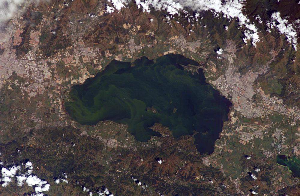 Lake Valencia (Lago de Valencia) is located in north-central Venezuela, and is the largest freshwater lake in the country. The lake was formed approximately 2-3 million years ago due to faulting and subsequent damming of the Valencia River. The lake has been completely dry during several discrete periods of its geologic history. Since 1976 Lake Valencia water levels have risen due to diversion of water from neighboring watersheds—it currently acts as a reservoir for the surrounding urban centers (such as Maracay). The vivid green algal blooms present in this image result from a continual influx of untreated wastewater from the surrounding urban, agricultural, and industrial land uses. This contributes to ongoing eutrophication, contamination, and salinization of the lake. Despite its picturesque location between the Cordillera de la Costa to the north and the Serrania del Interior to the south, Lake Valencia’s poor water quality limits opportunities for tourism and recreational activities. Astronaut photograph ISS010-E-5194 was acquired October 27, 2004 with a Kodak K-760C digital camera with a 180 mm lens and is provided by the ISS Crew Earth Observations experiment and the Image Science & Analysis Group, Johnson Space Center. The International Space Station Program supports the laboratory to help astronauts take pictures of Earth that will be of the greatest value to scientists and the public, and to make those images freely available on the Internet. Additional images taken by astronauts and cosmonauts can be viewed at the NASA/JSC Gateway to Astronaut Photography of Earth.